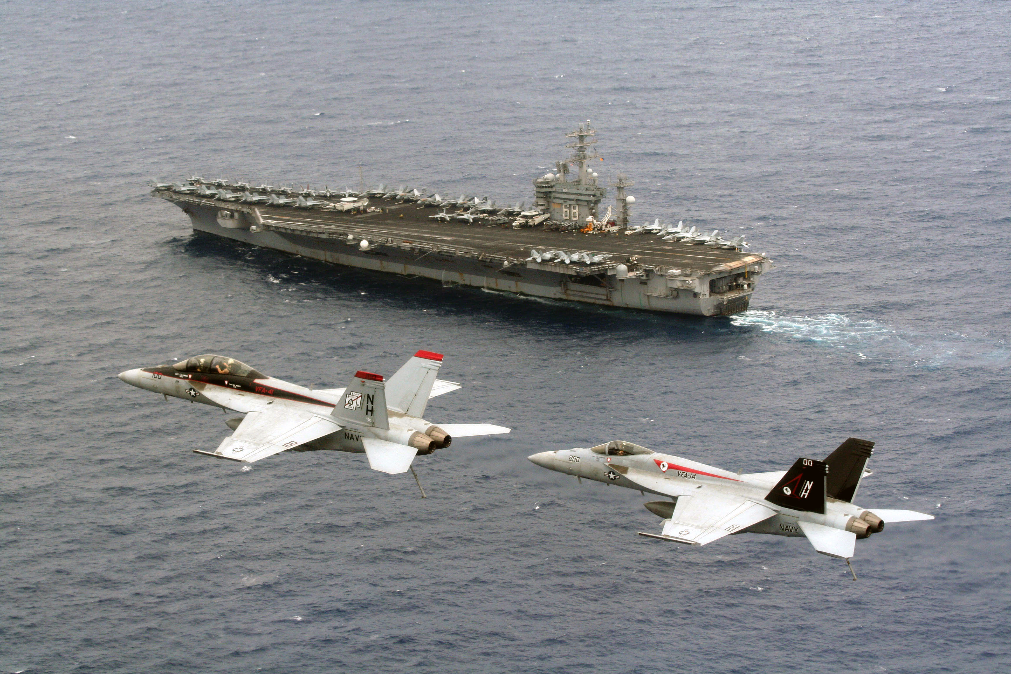 PACIFIC OCEAN (JULY 31, 2007) - Capt. Michael Manazir, commanding officer of the nuclear-powered aircraft carrier USS Nimitz (CVN 68), Capt. David Woods, former Commander, Carrier Air Wing (CVW) 11, and Capt. Thomas Downing, commander CVW-11, fly by the Nimitz in a F/A-18E and F/A-18F Super Hornets during an airborne change of command ceremony for CVW-11. The Nimitz Strike Group and embarked Carrier Air Wing 11 are deployed in the U.S. 7th Fleet. U.S. Navy photo by Lt. Cmdr. Brian Knoll (RELEASED)